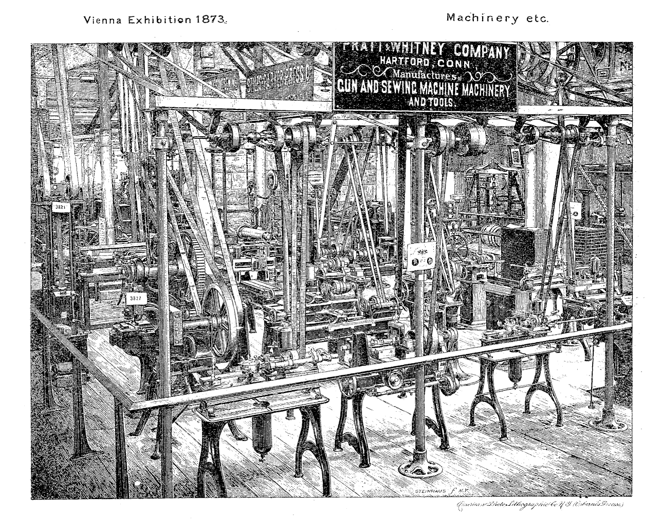 A view of the Pratt & Whitney display at the Vienna 1873 World Exhibition (Weltausstellung 1873 Wien). What you are looking at is several rows of machine tools with belts run to the line shaft.